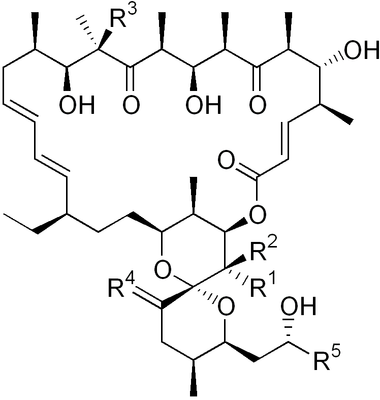 Chemical structures of the oligomycins. Adapted from Nakata, M., et al., Bull. Chem. Soc. Jpn., 68, 967-989 (1995)